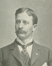 Former Congressman Franklin Wheeler Mondell of Wyoming.